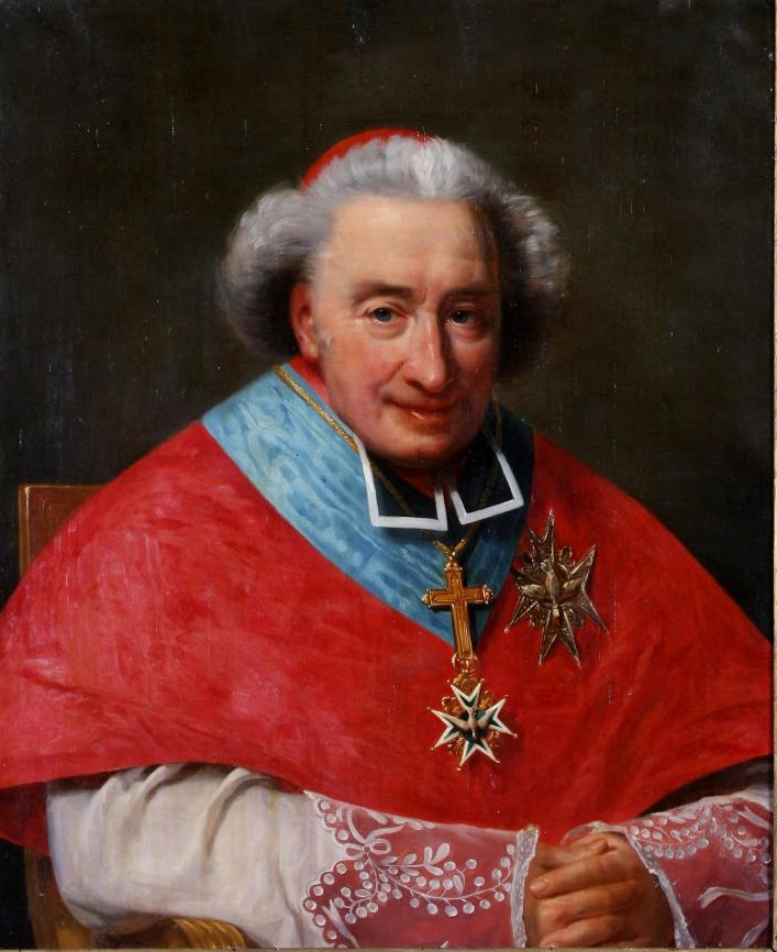 Kardinal Anne-Antoine-Jules de Clermont-Tonnerre (1749-1830)